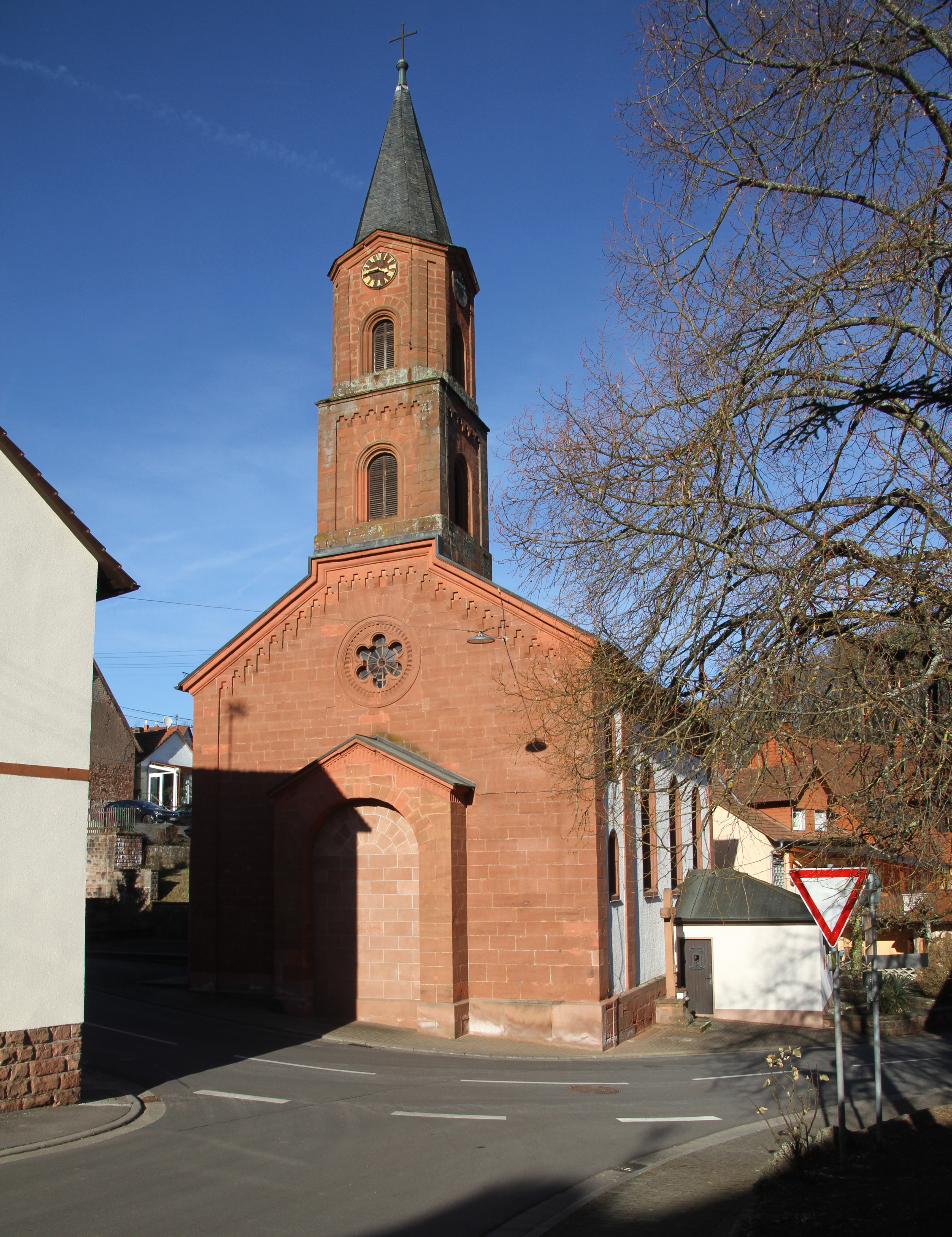 Church of Saint Martin in Stein.